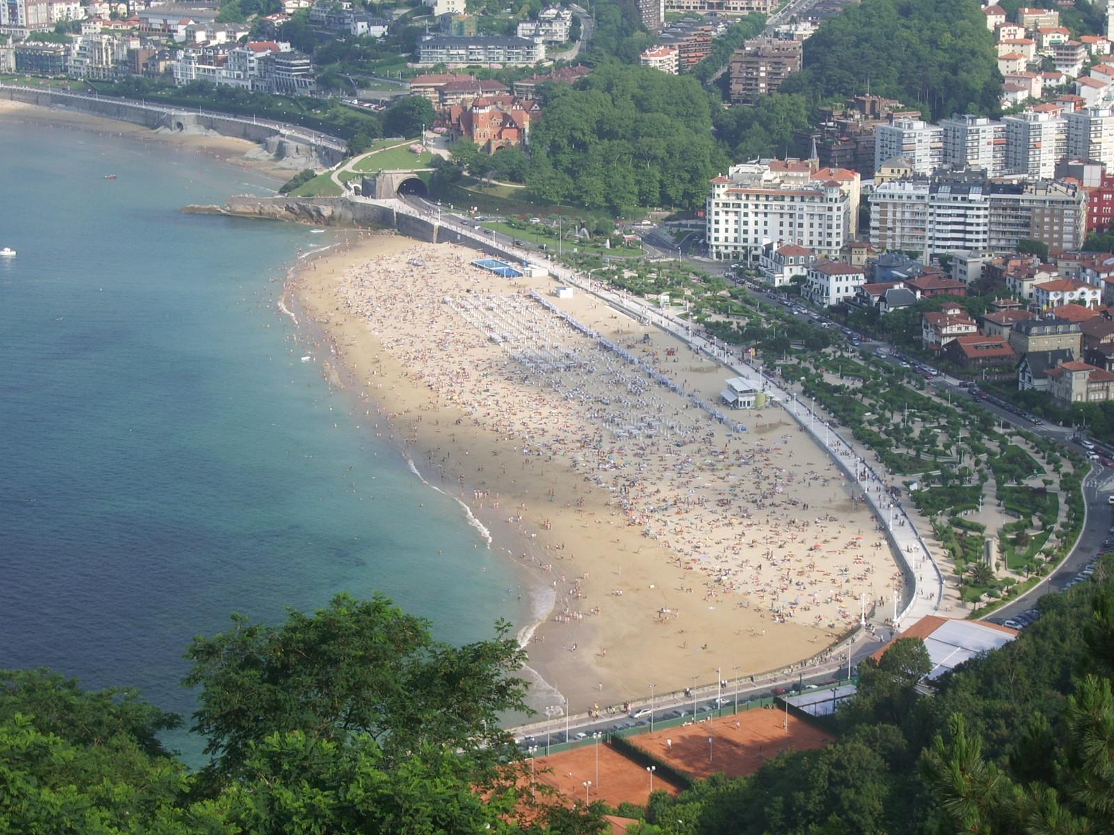 Ondarreta beach (San Sebastian)